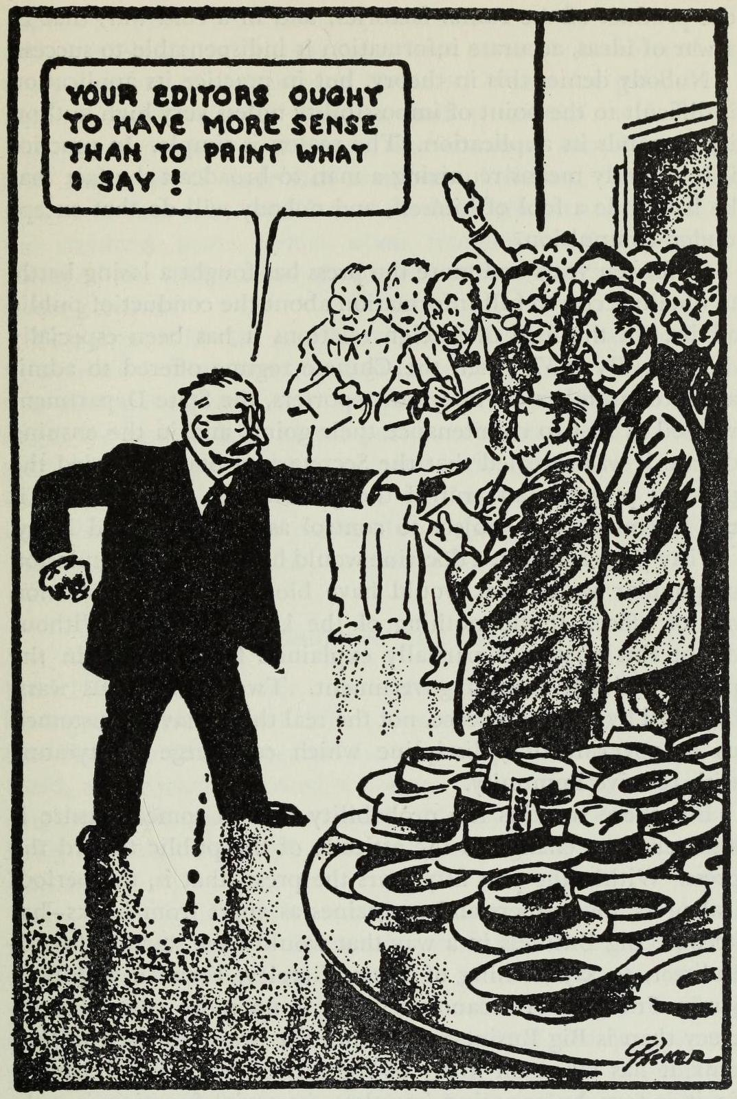 "Your editors ought to have more sense than to print what I say!", an editorial cartoon lampooning an incident involving U.S. President Harry Truman. Winner of the 1952 Pulitzer Prize for Editorial Cartooning.